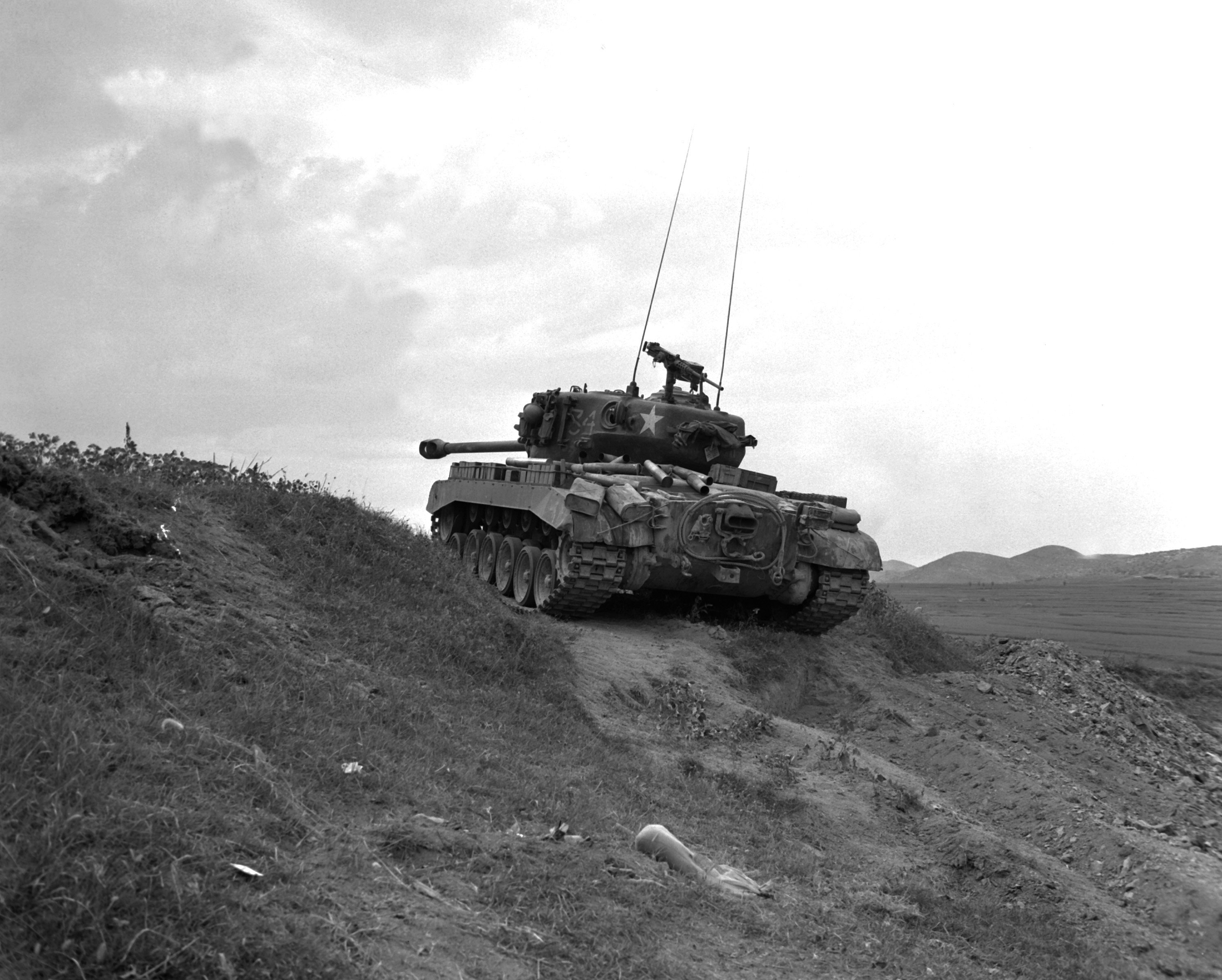 Operation / Series: KOREAN WAR Marine Pershing tanks grind up heights along Naktong and give close support to Leathernecks driving enemy backward. North Koreans used anti-tank guns, tanks and automatic weapons in hours-long fire fight before Marines broke them. NARA FILE# : 127-GK-234A-A2290